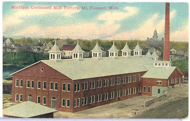 Michigan Condensed Milk Factory Mt Pleasant MI NRHP83000853